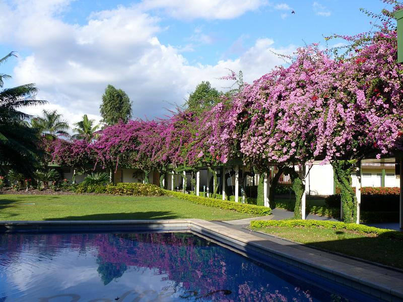 Raffles Gateway Hotel, Nadi, Fiji